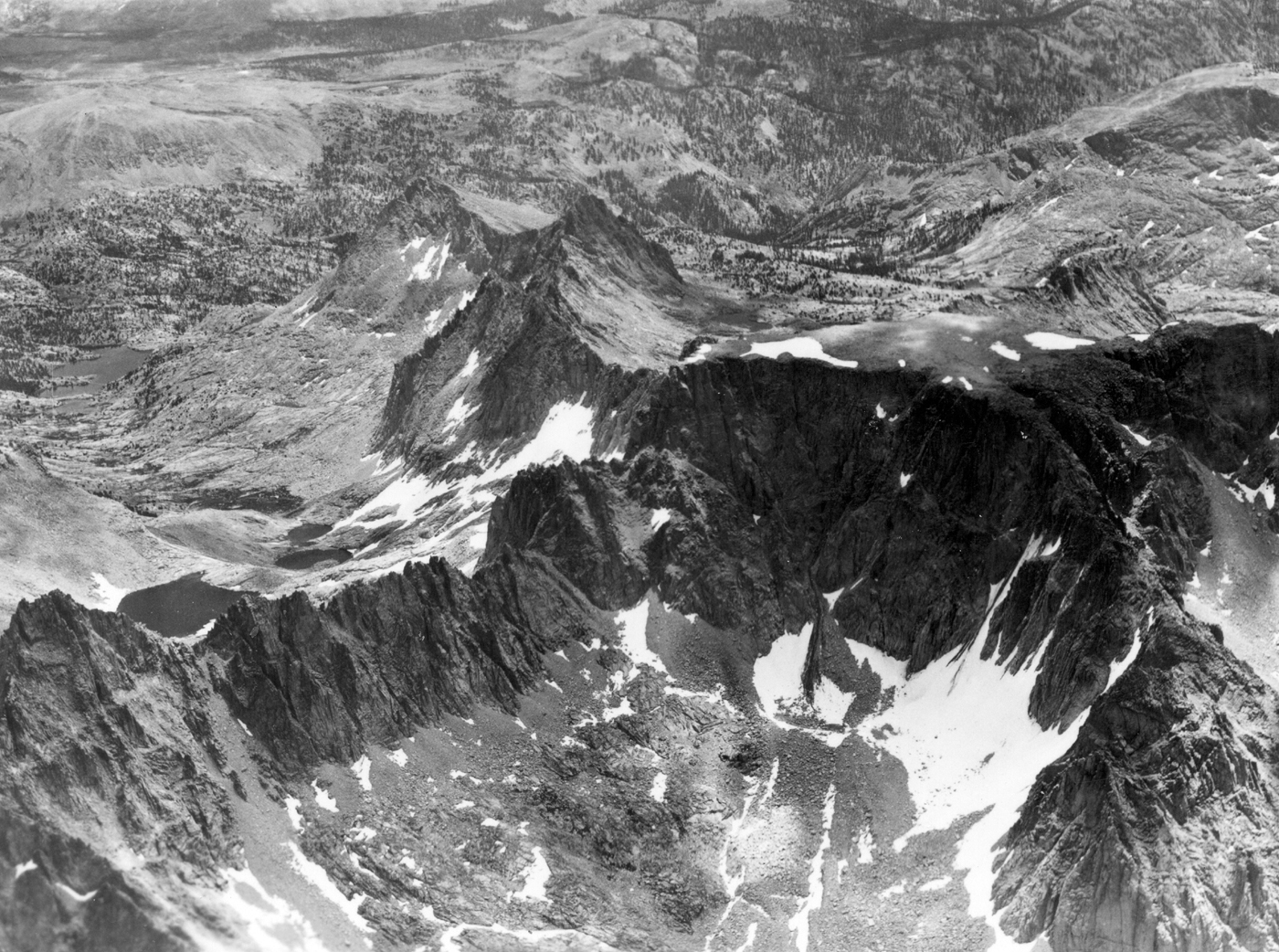 Sequoia National Park, California. Southeast toward cirques on the Great Western Divide, which forms part of the boundary between Sequoia National Park and Kings Canyon National Park. Table Mountain, the flat-topped peak to the right of center, is one of the dominating summits of the divide. Photo by F. Webb. Figure 11, U.S. Geological Survey Professional paper 504-A.